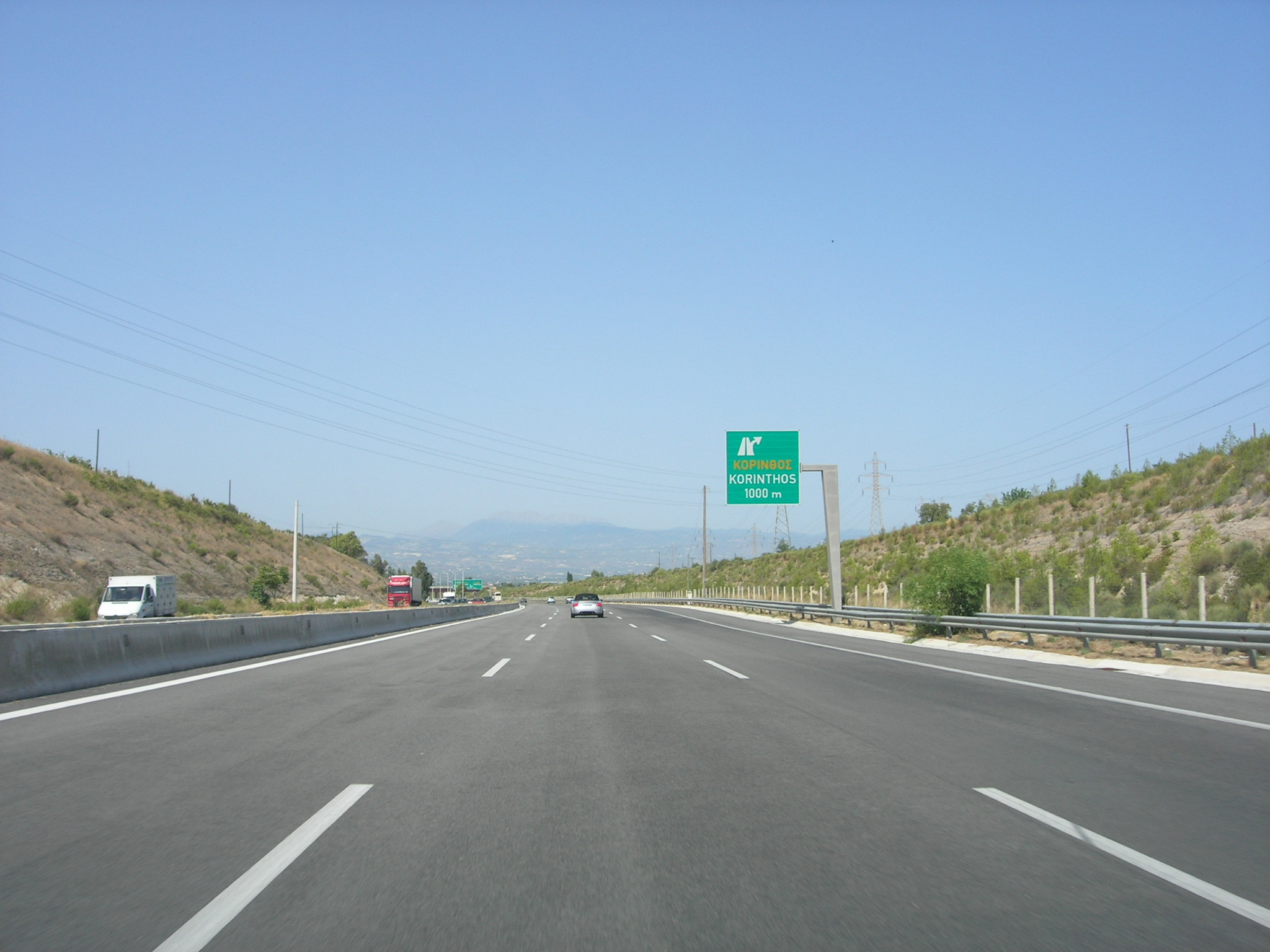 Greek Motorway 8 Greek National Road 8A. Korinthos Exit.